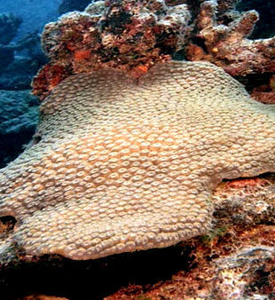 Stephanocoenia michelinii - Blushing Star Coral